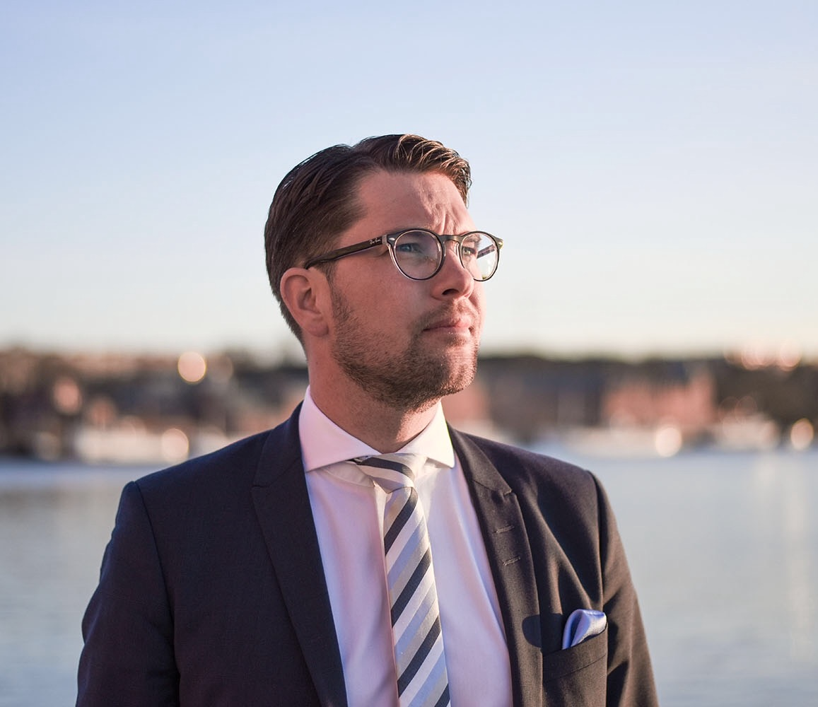 Åkesson 2016